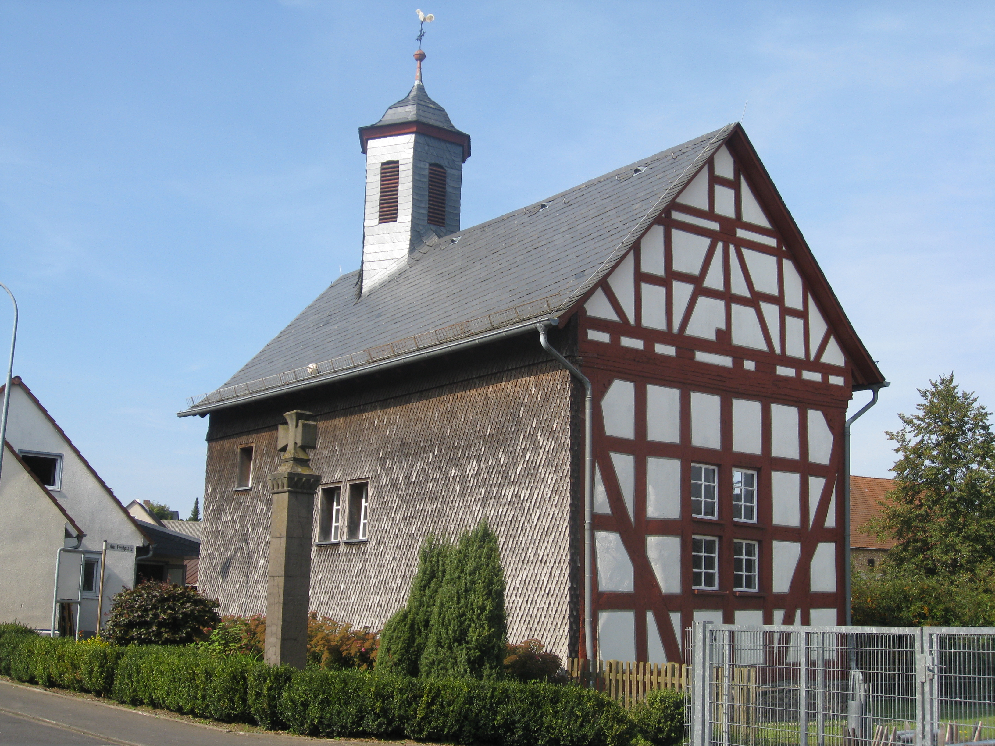 Church of Reinhardshain, September 2011